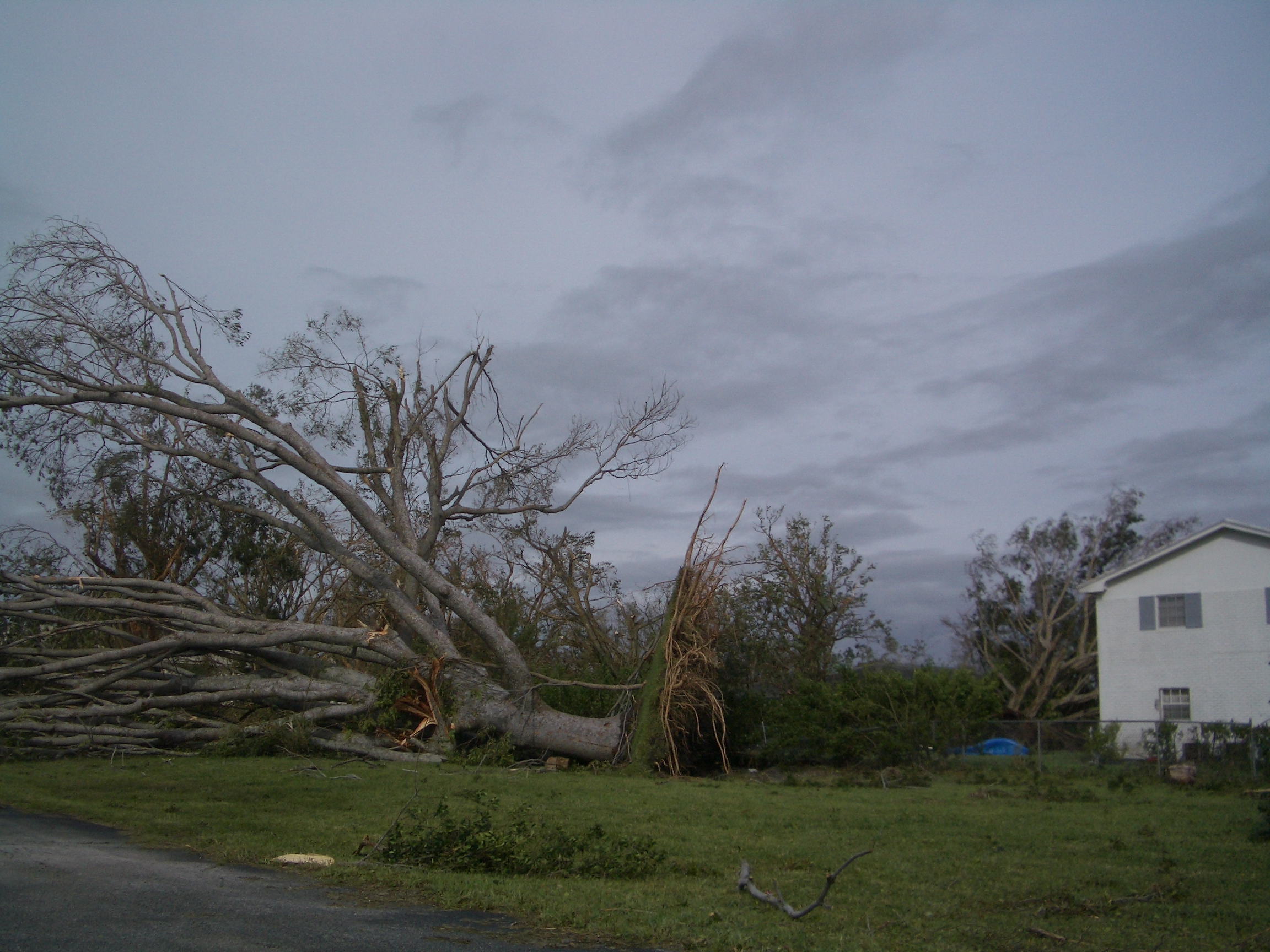 Tree in Coral Springs, after the hurricane Wilma (Sample Road)